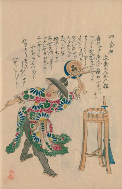 Annan Konnan Ame by Houkaishi Ishizuka